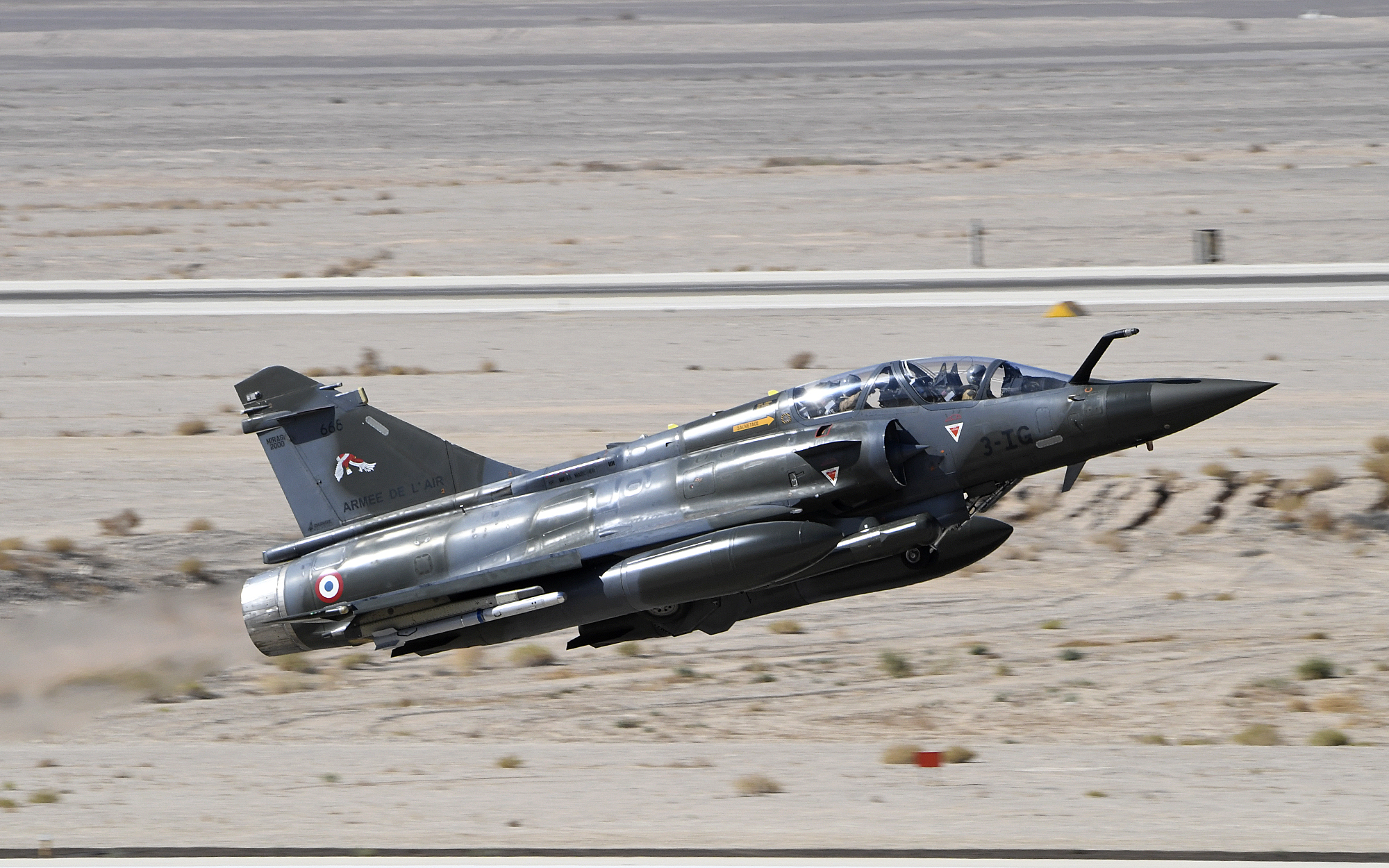 U.S. Embassy Deputy Chief of Mission Leslie Tsou visited U.S. Air Force personnel and F-16 jet fighters from the 510th Fighter Squadron, Aviano Air Base, Italy, who took part in exercise Blue Flag 2017 at Uvda Air Base in southern Israel November 14, 2017. U.S. Air Force participation in the exercise supports our nation's commitment to Israel's defense and supports Israel's qualitative military edge. The U.S. and Israel's continuing contributions to develop and improve air readiness are significant in maintaining security and building a strong partnership. Blue Flag